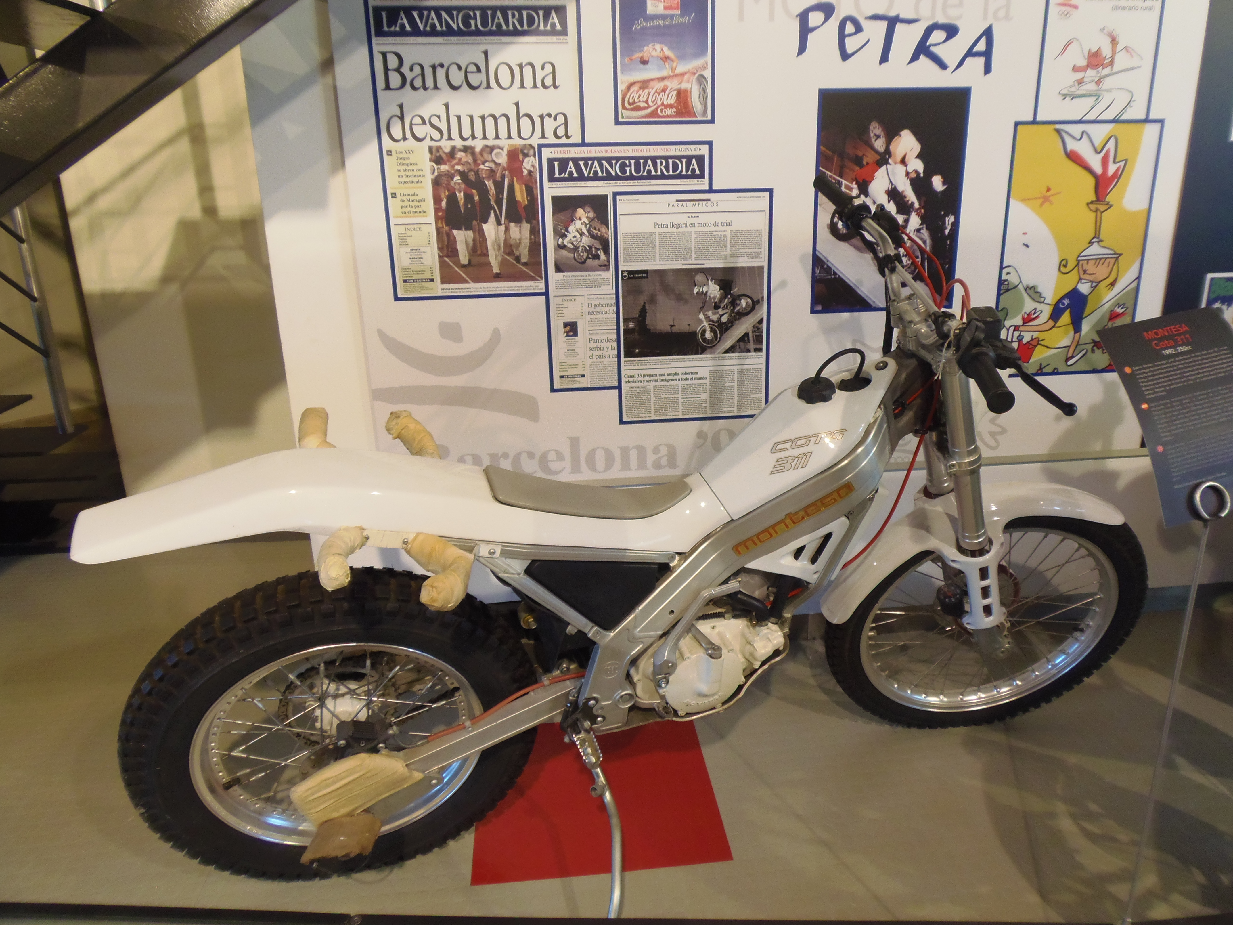 Gabino Renales rode this Montesa Cota 311 (250 cc) at the opening ceremony of the Barcelona Summer Paralympics in 1992. He carried back the mascot of the games, Petra.